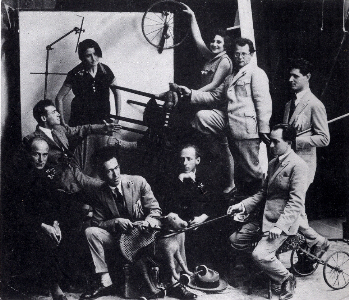 Modern artists. photo by Avraham Soskin. 1925. left to right: Yosef Zaritsky, Arie Lubin, Yona Zeliuk, Reuven rubin, Ziona Tagger, Pinchas Liyvionwsky, Izhak Katz, Baruch Agadati.